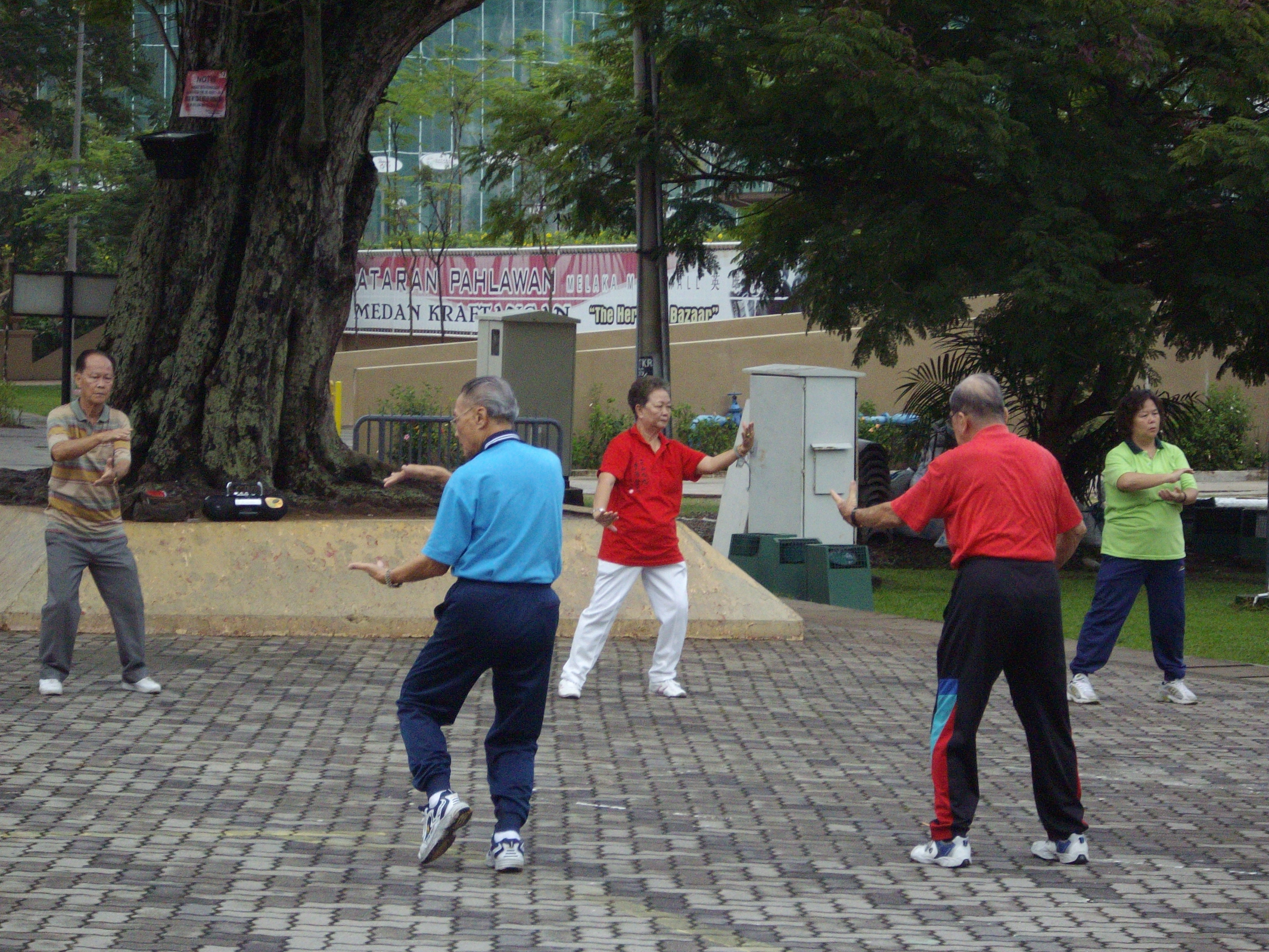 "Tai-chi" exercises being performed early in the morning near "Melaka town hall"Eje(25-10-08)